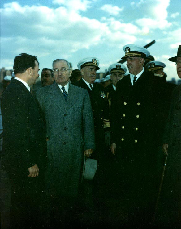 Harry S. Truman with New York Governor Thomas E. Dewey (left) and Vice Admiral Herbert F. Leary (right) aboard the battleship USS Missouri during Navy Day Fleet Review in the Hudson River off New York City.